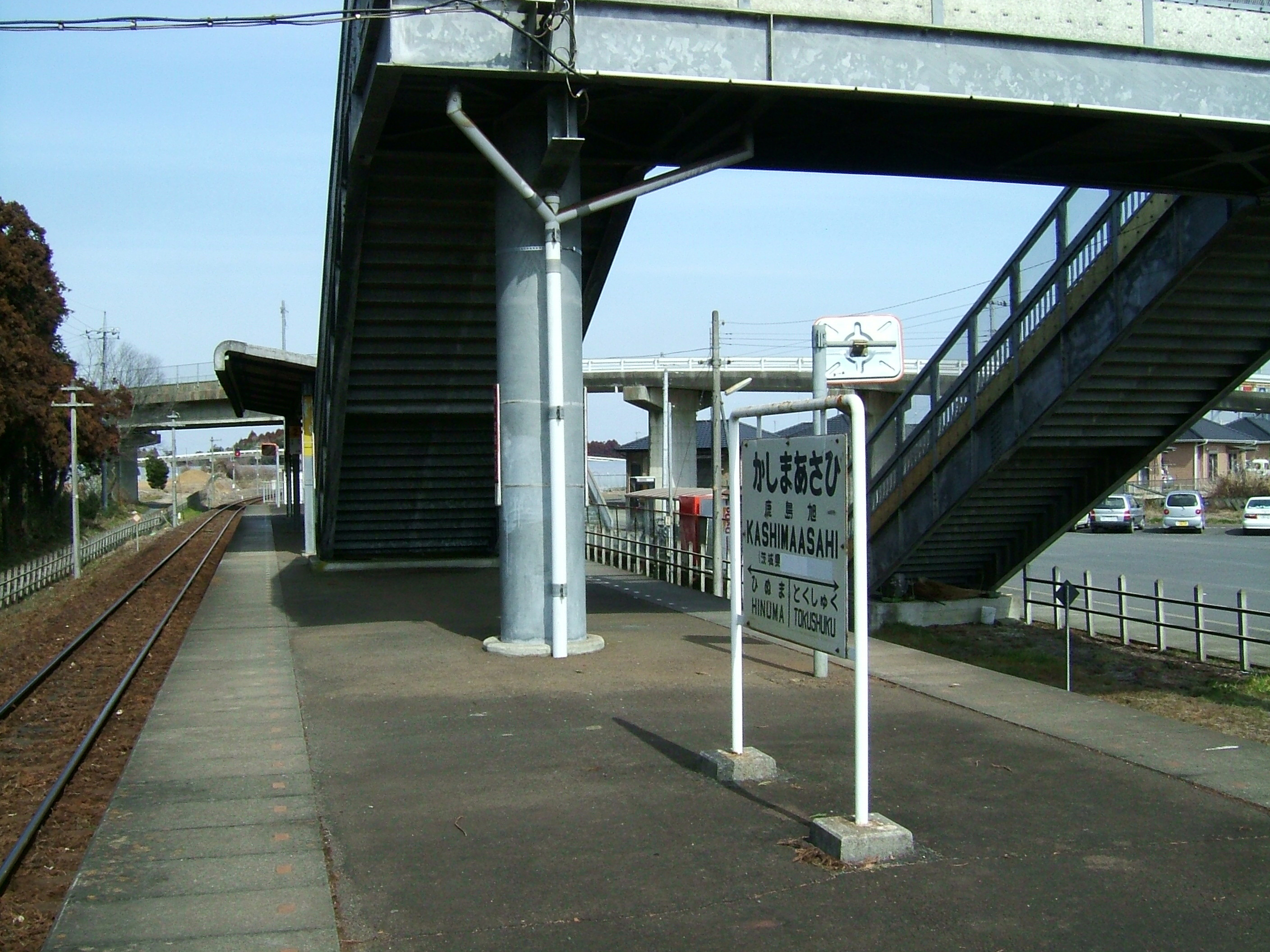 The platform at Kashima-Asahi Station on theKashima Seaside Railway Oarai-Kashima Line